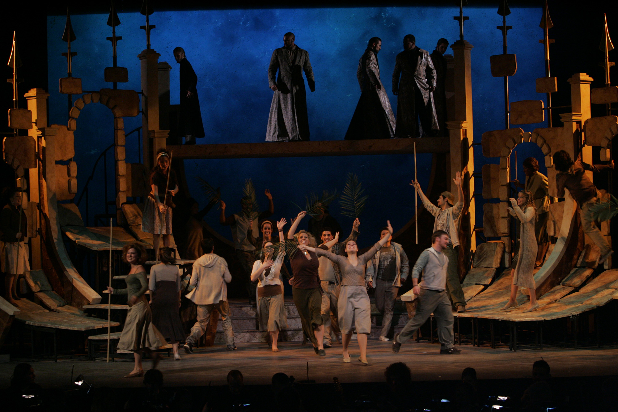 (Photo by Karl Kuntz 05/2005) Photo from the Ottebein College production of Jesus Christ Superstar. Photos are for personal use only and may not be published without permission of the photographer. publication copyright by Karl KUNTZ